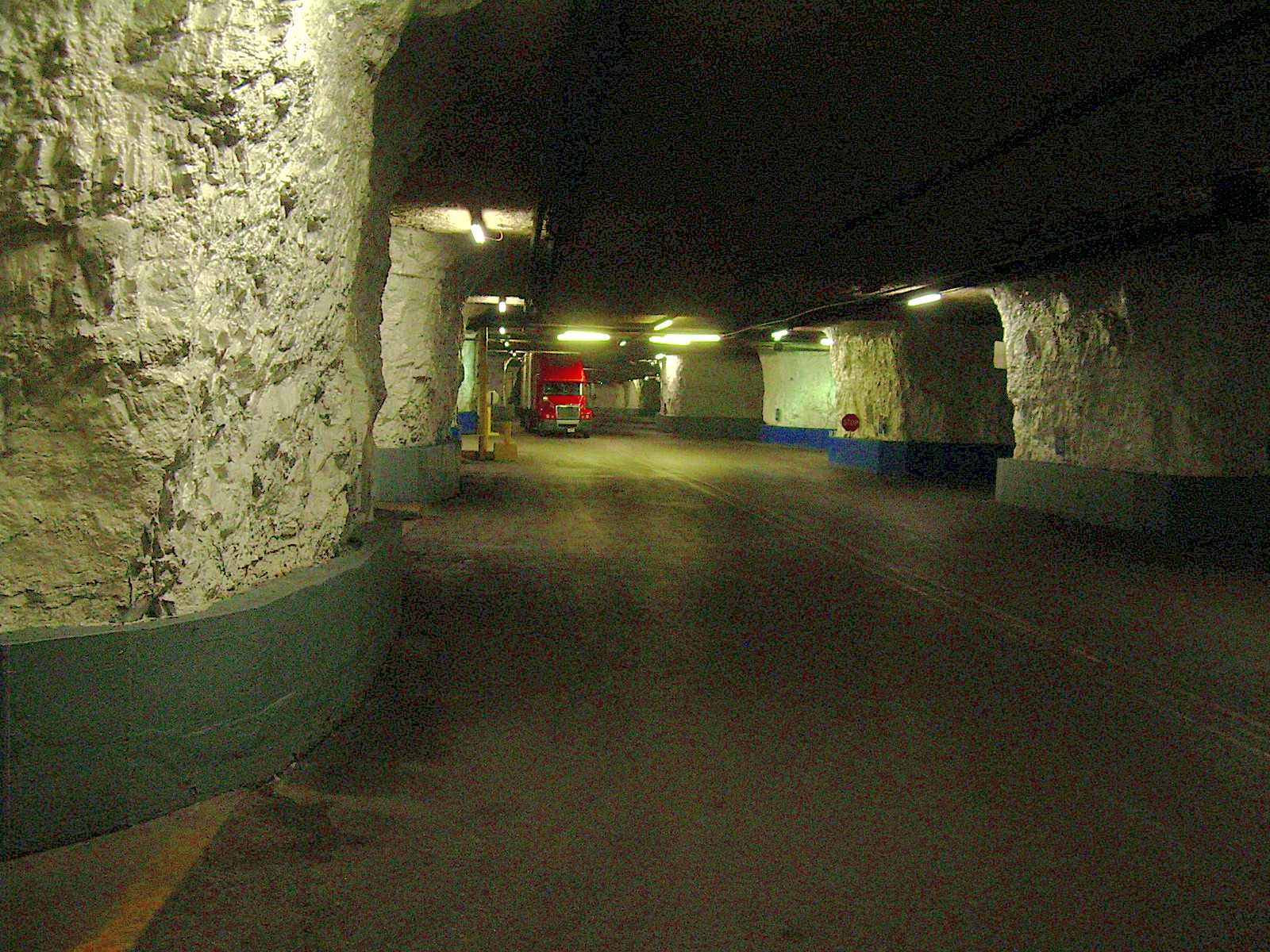 Inside the sub-terranean SubTropolis industrial complex in Kansas City, MO.